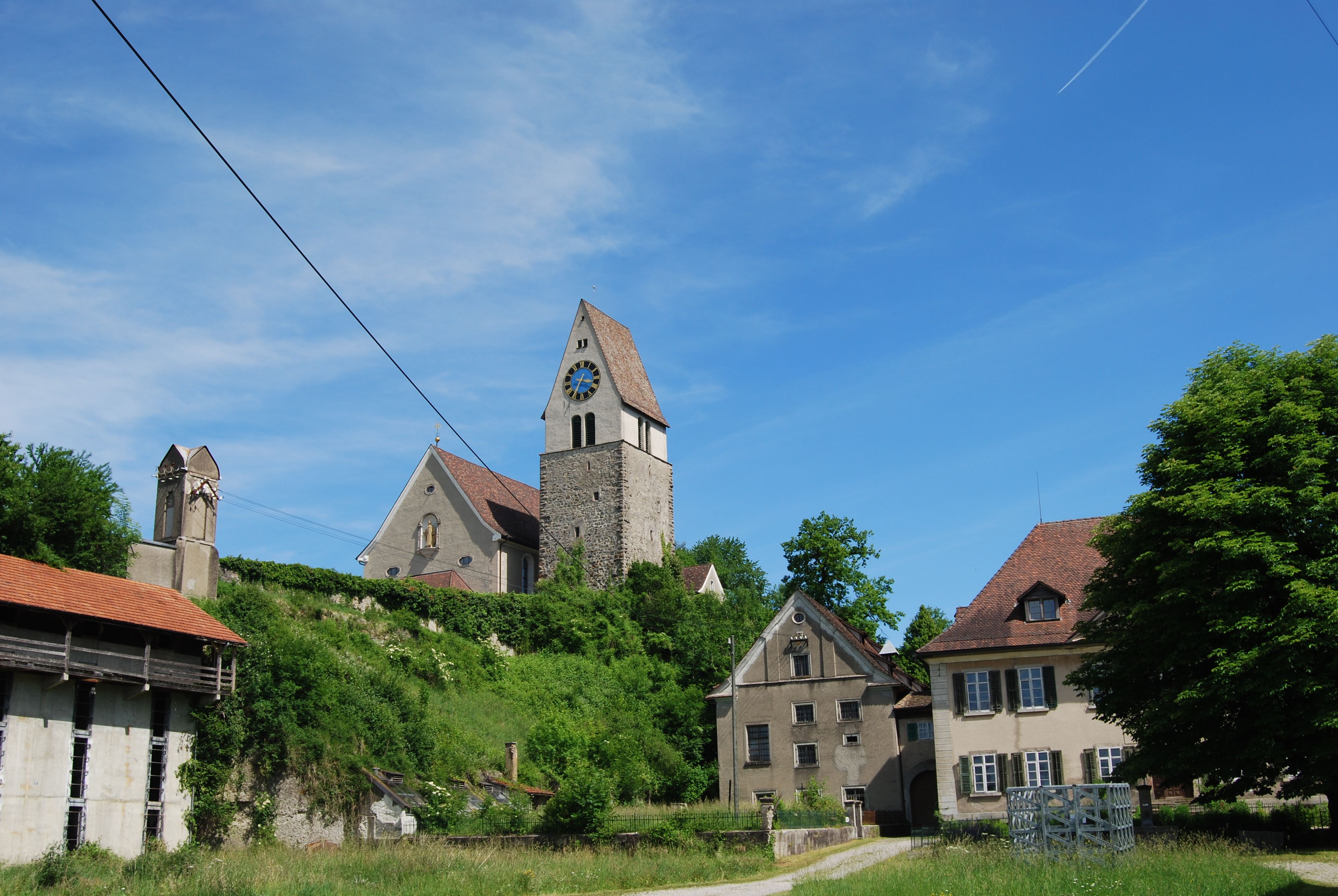 Tobel Commandry of the Order of Saint John, municipality Tobel-Tägerschen, canton of Thurgovia, Switzerland